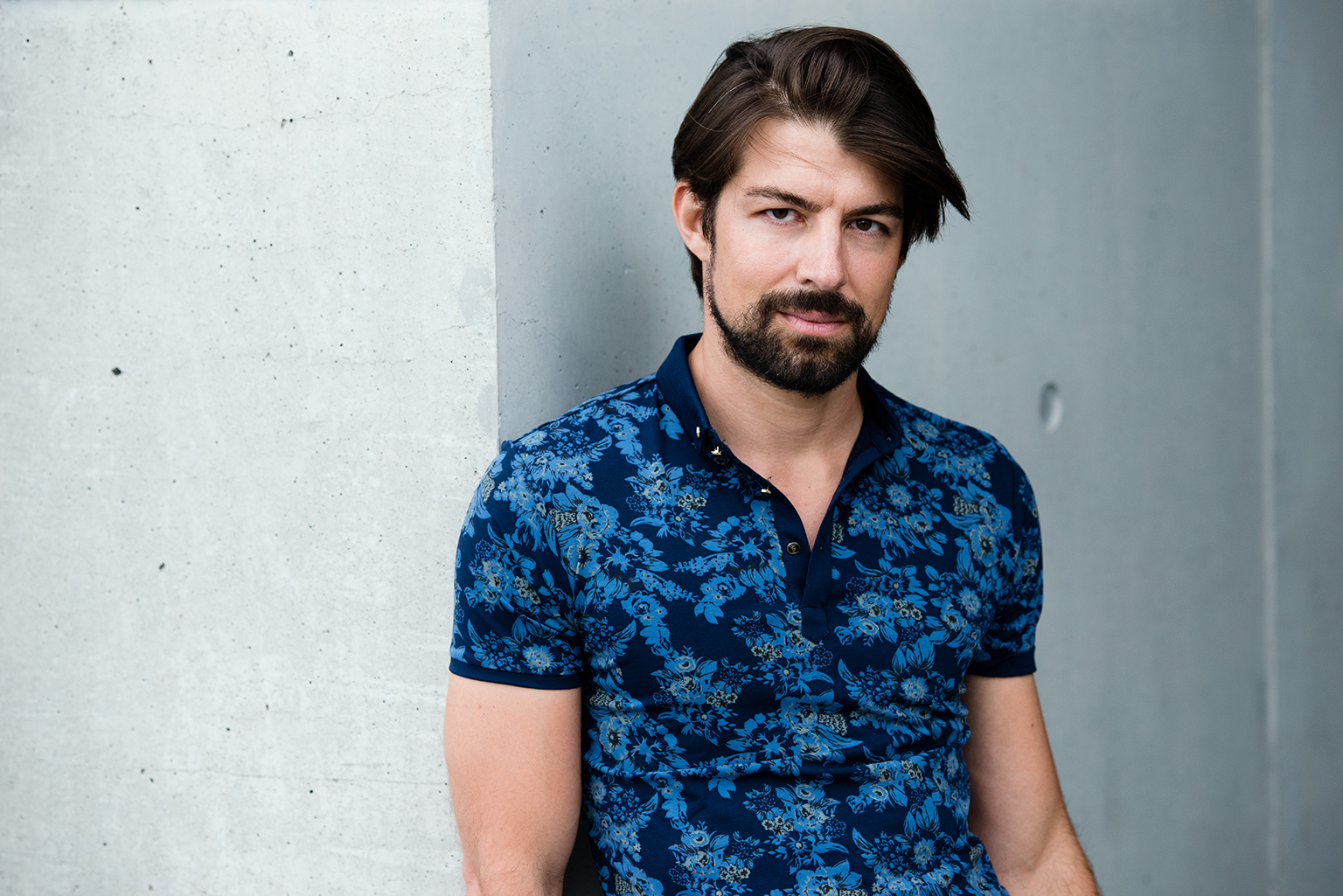 Andreas Kaplan